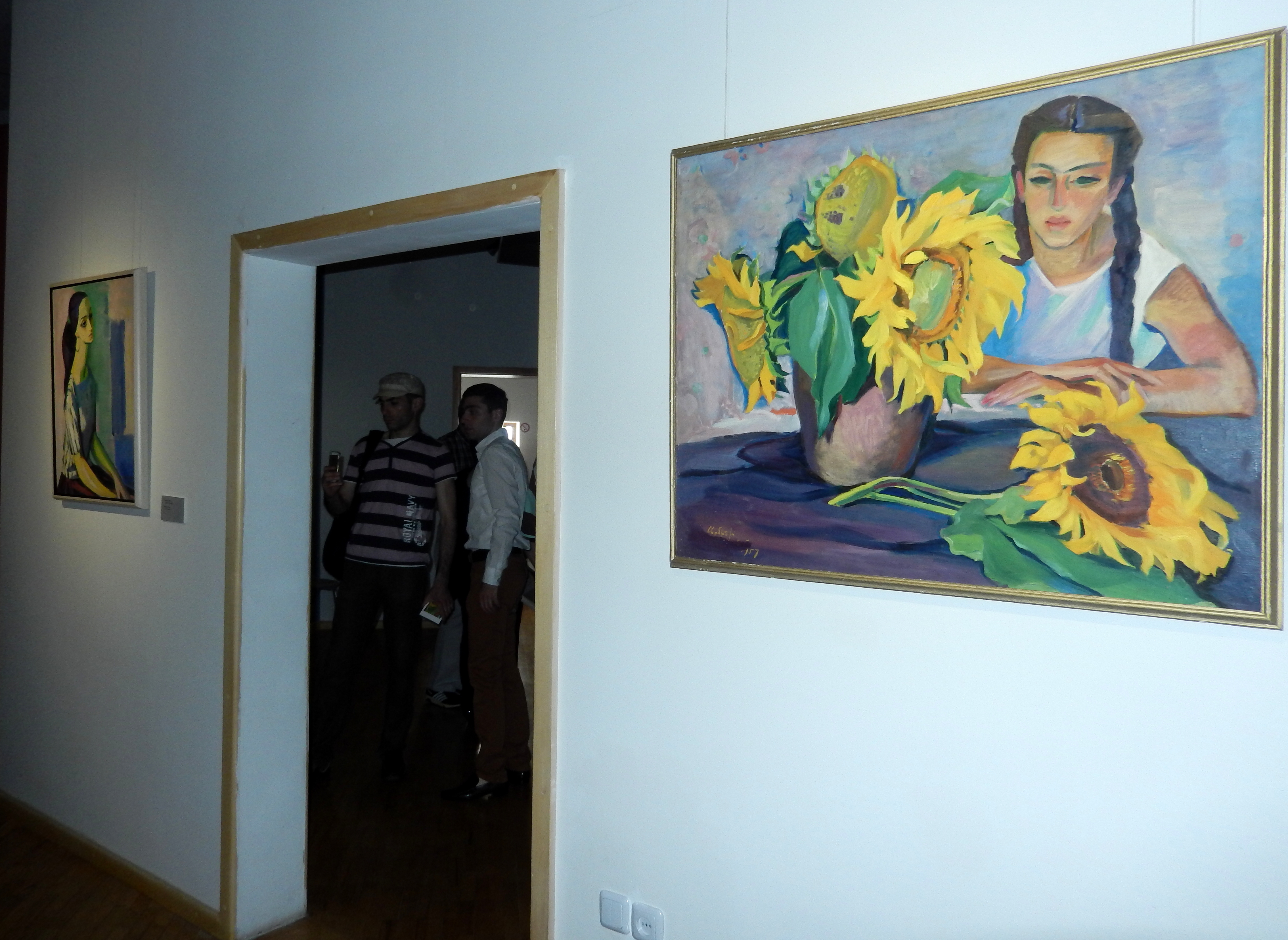 Արմինե ԿԱլենց, Կալենց թանգարան